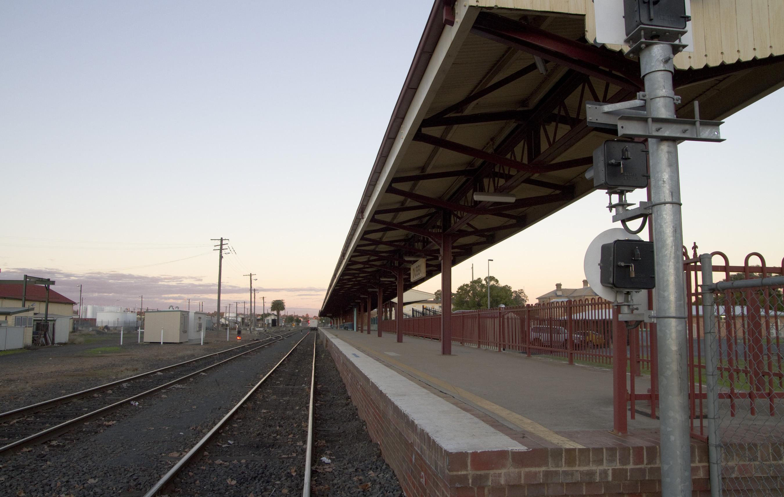 Dubbo railway station platform, Dubbo, New South Wales, Australia